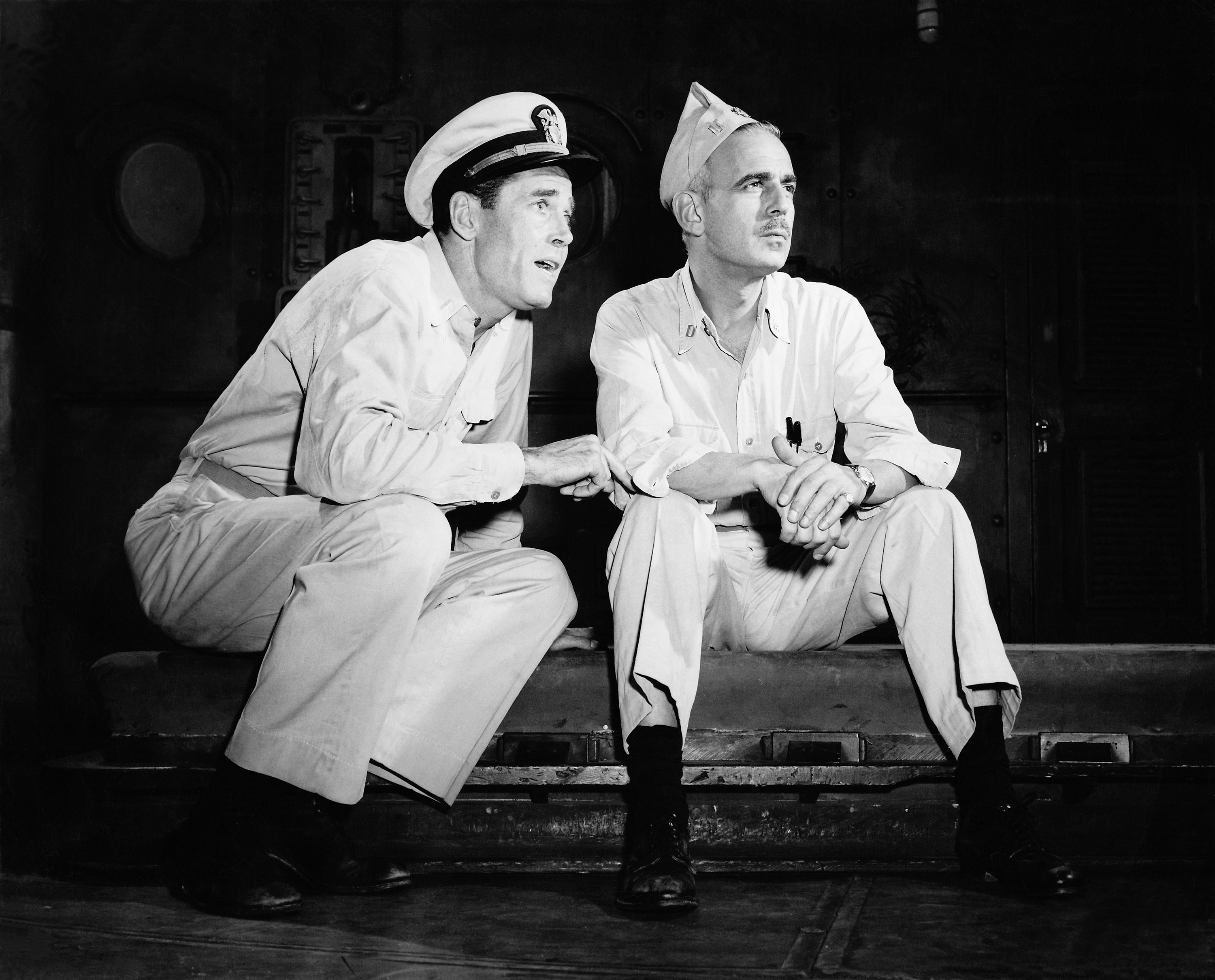 Promotional photograph of Henry Fonda and Paul Stewart in a scene from the Broadway production of Mister Roberts at the Alvin Theatre, New York